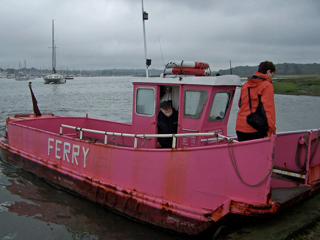 Hamble to Warsash ferry This is at Warsash jetty. The ferryman checks passengers have disembarked safely. This boat is 'Claire'. The company operates two other boats, also painted pink.